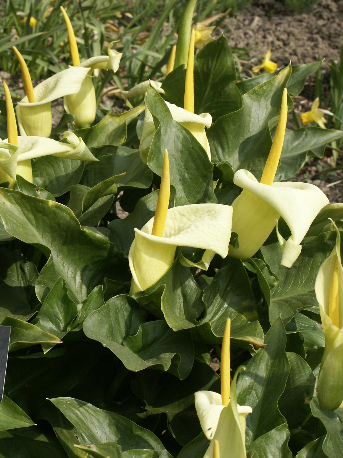 Arum creticum, in Sissinghurst, Kent, UK